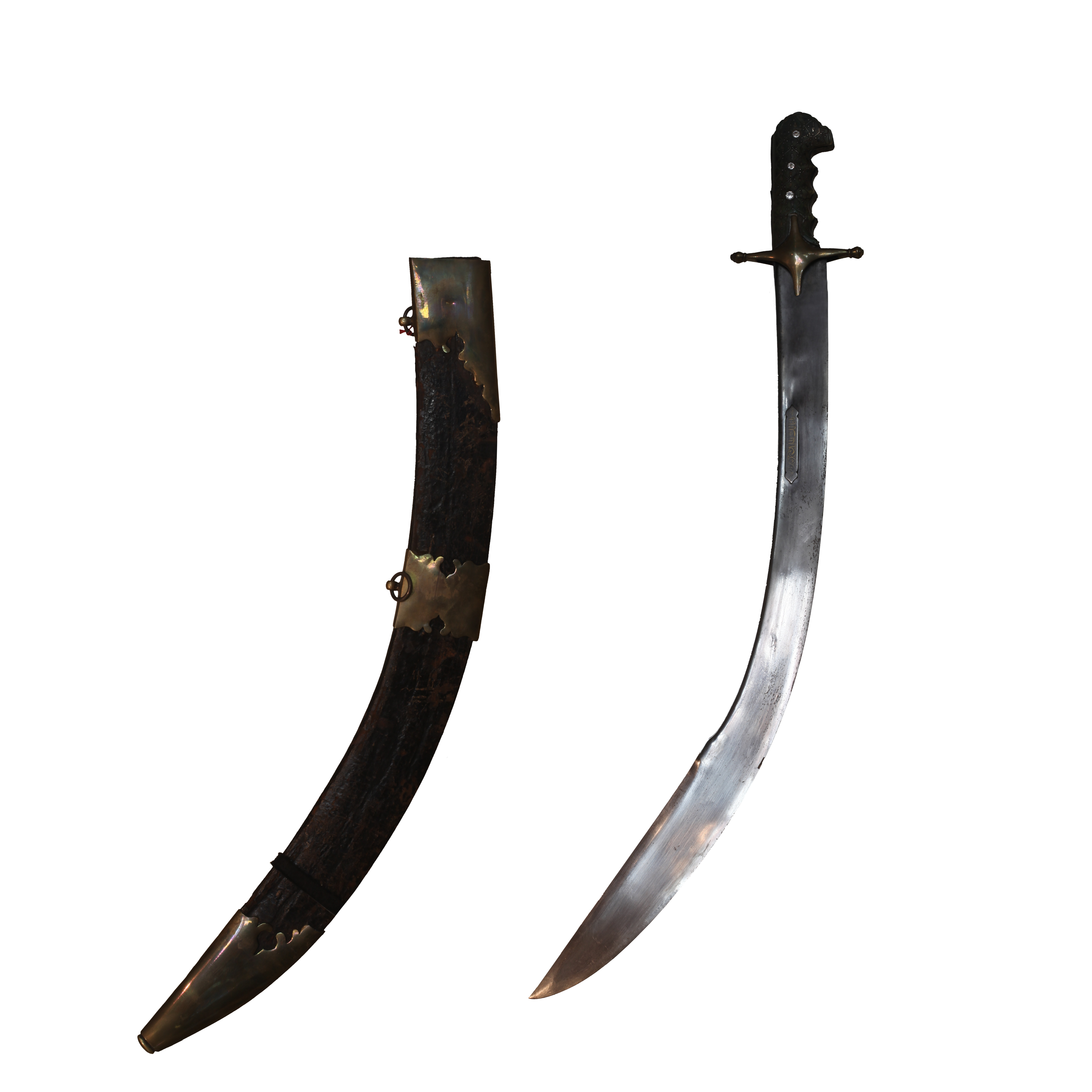 Turkish kilij scimitar. Taken by Russian troops under general Orlov, given by him to Louis-Philippe de Mellet On display at Vevey historical museum, accession number 1194